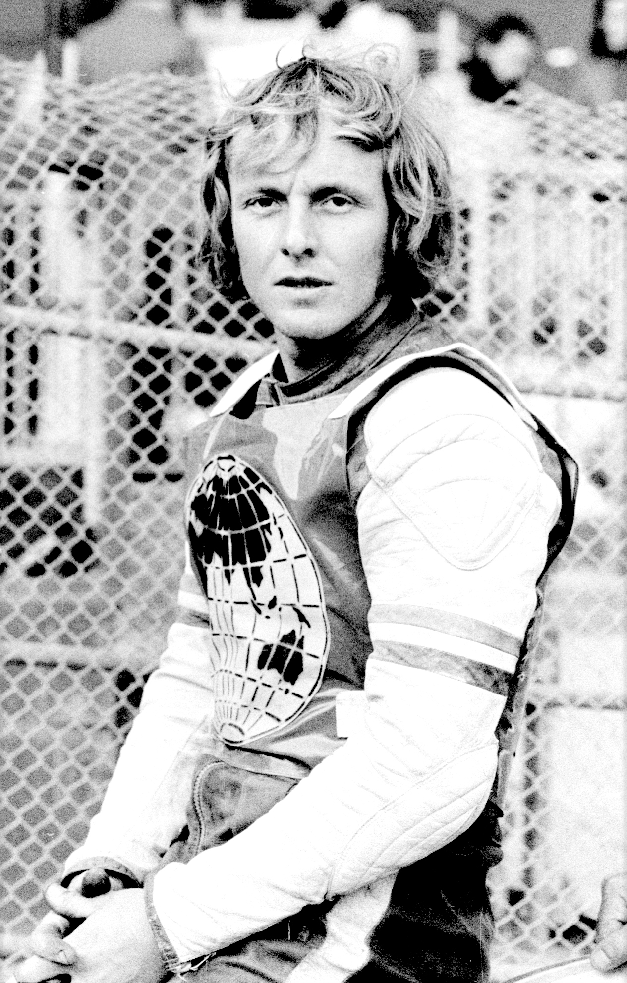 John Boulger at the Intercontinental Final